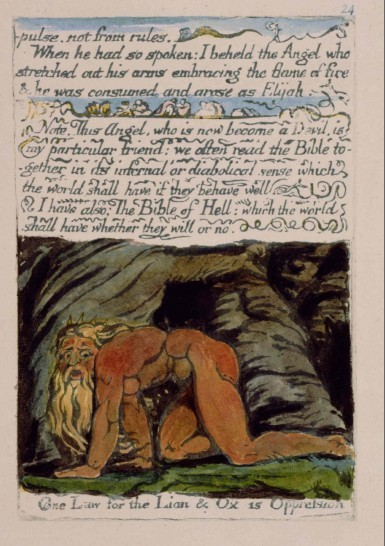 Image from "The Marriage of Heaven and Hell", by William Blake